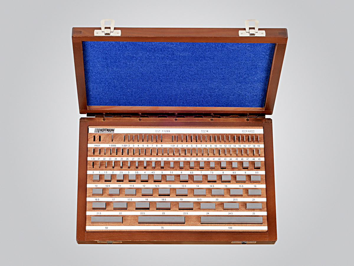 Herbert Hoffmann GmbH, 112 pcs